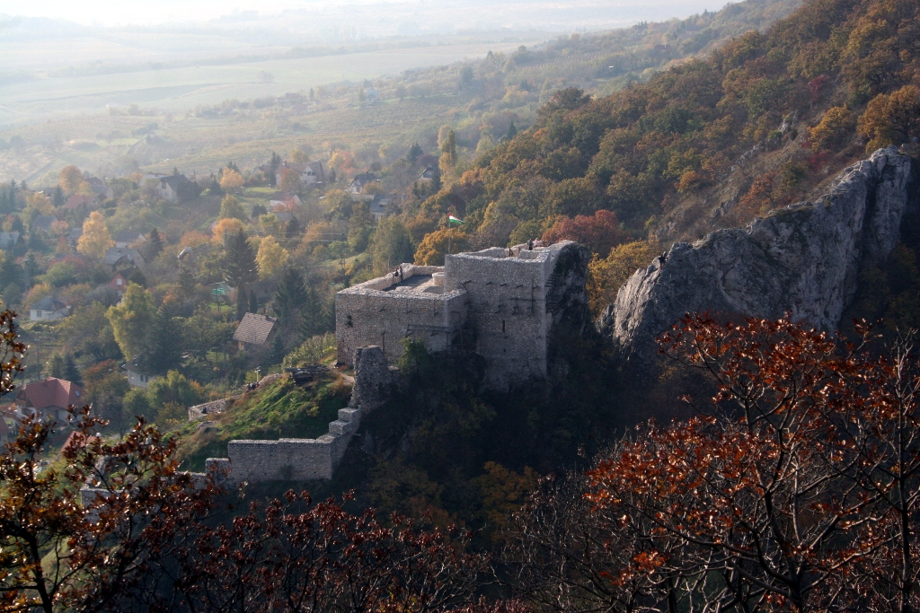 Csókakői vár látképe 2010.